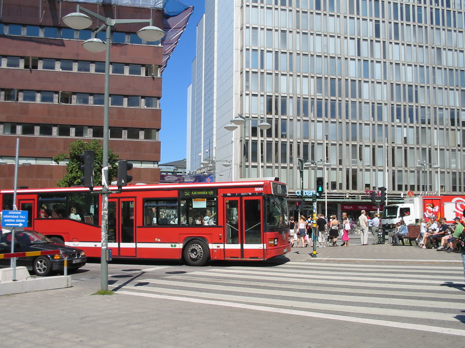 Pedestrian crossing with a Stockholm public transport bus at Sergels torg, Stockholm, Sweden. The Hötorgsskraporna buildings are in the background. Picture is facing about north-northwest, away from Sergels torg, towards Sergelgatan. Image taken by myself on 2005-07-04.